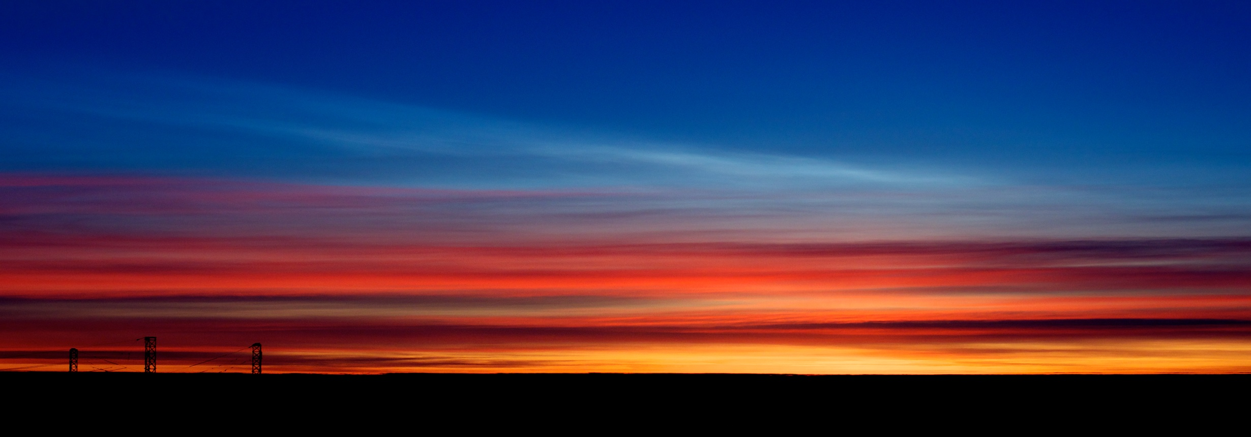 Polar Stratospheric Cloud type I above Cirrus at sunrise